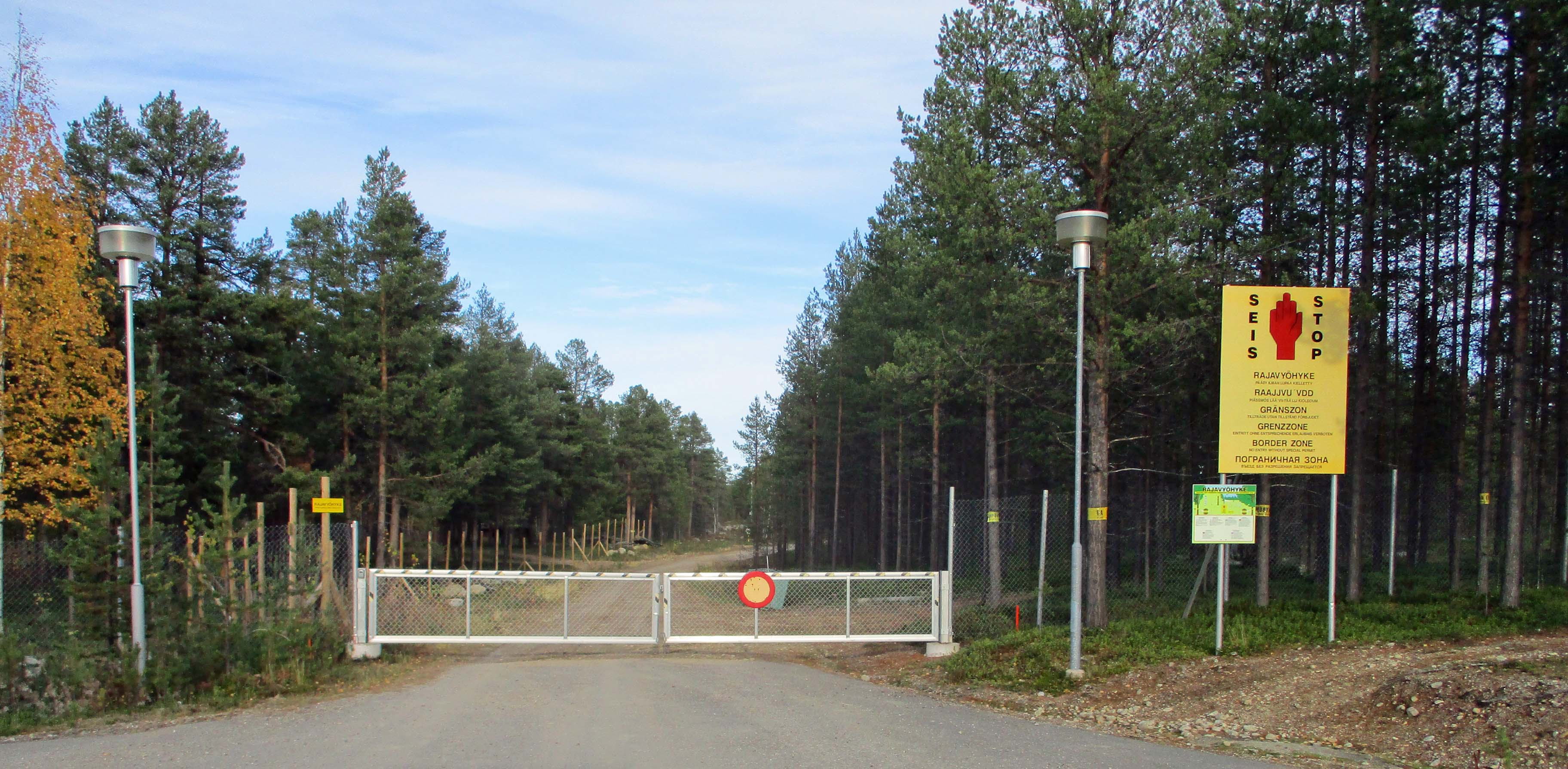 The road to Petsamo (Petjenga (Печенга). The border gate between Finland and Russia close north east of the village Nellim.